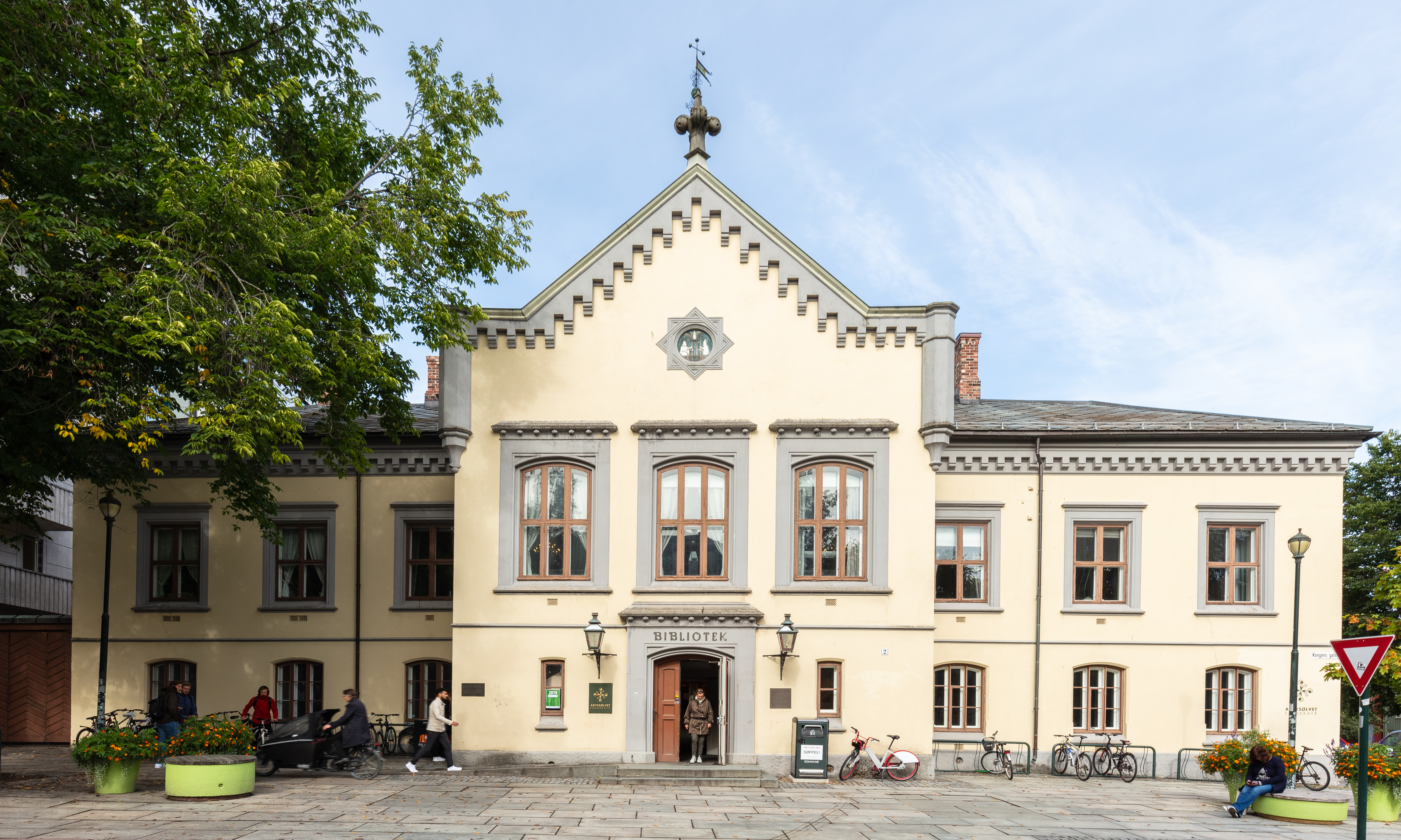 Old town hall, Trondheim, Norway